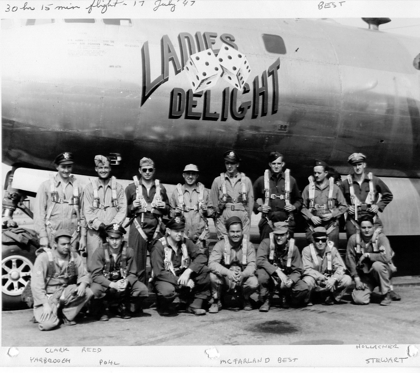 Photograph of crew of USAF B-29 Superfortress 45-21869 "Ladies Delight" after record 30 hour 15 minute flight, 17 July 1947.